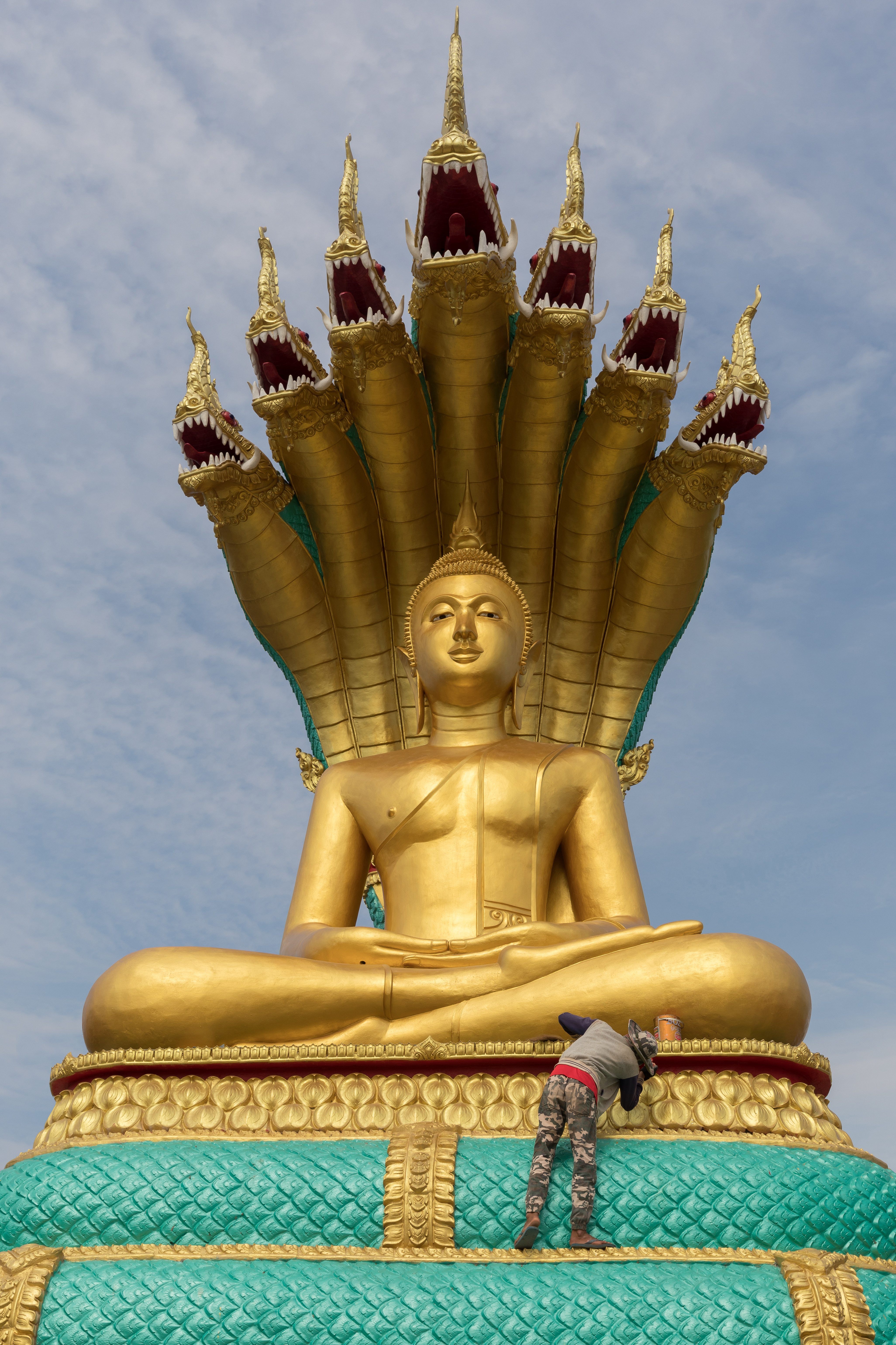 Worker painting in gold color a giant statue of the Buddha seated, in the temple of Don Loppadi (Si Phan Don), Laos